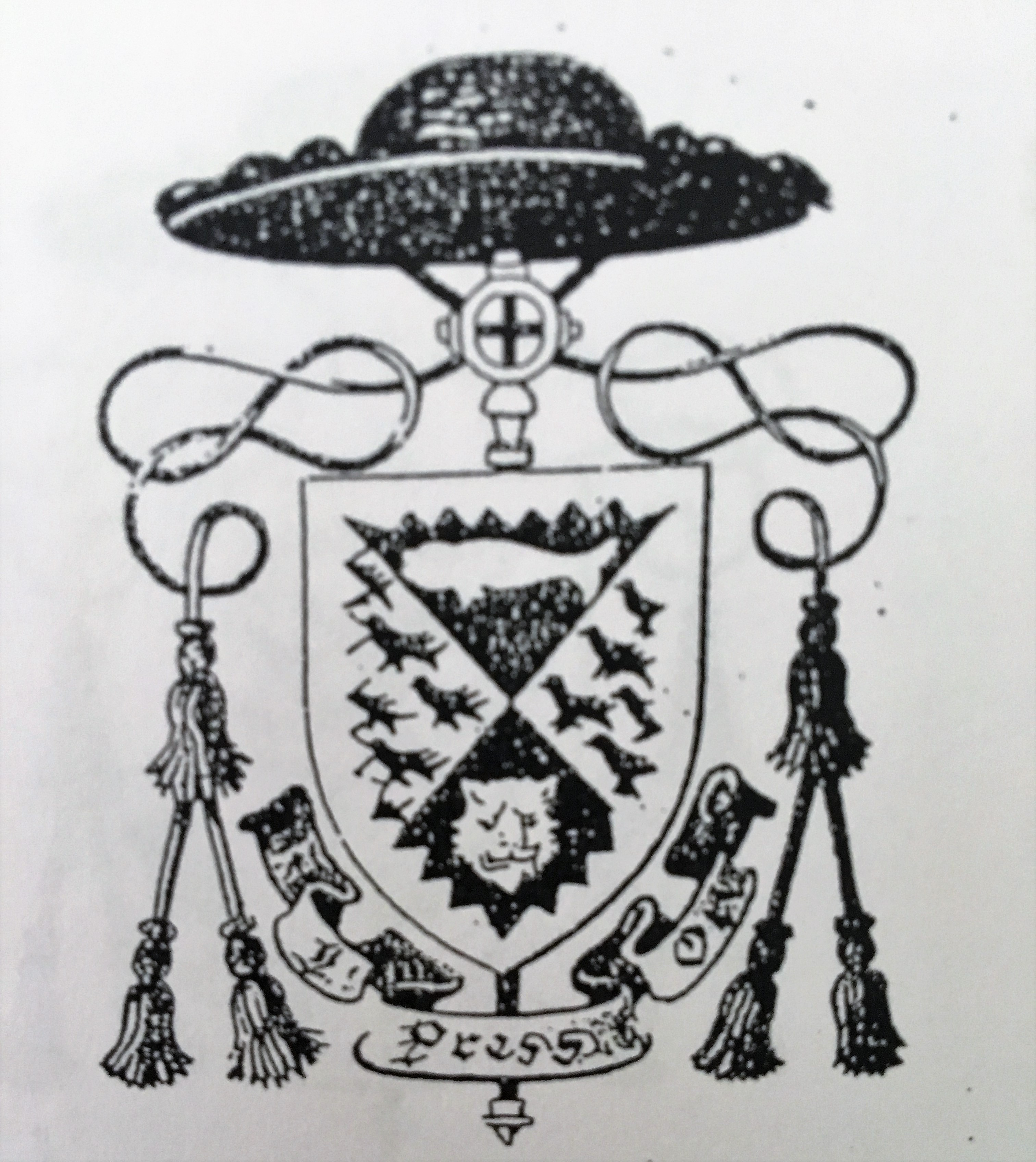 Stuart Barton Babbage Family Crest, registered in Scotland